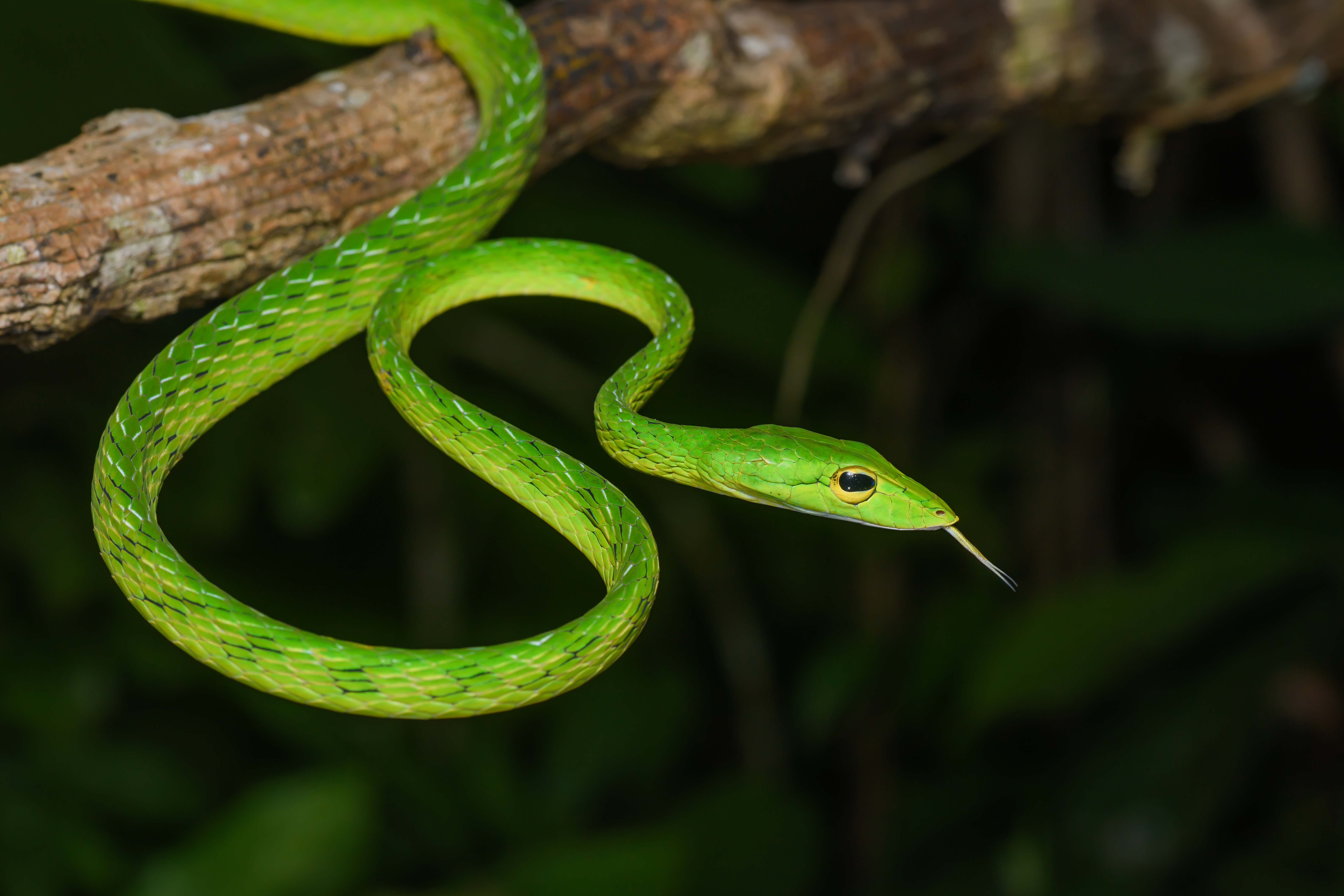 Ahaetulla mycterizans, Malayan green whip snake - Khao Phra - Bang Khram Wildlife Sanctuary